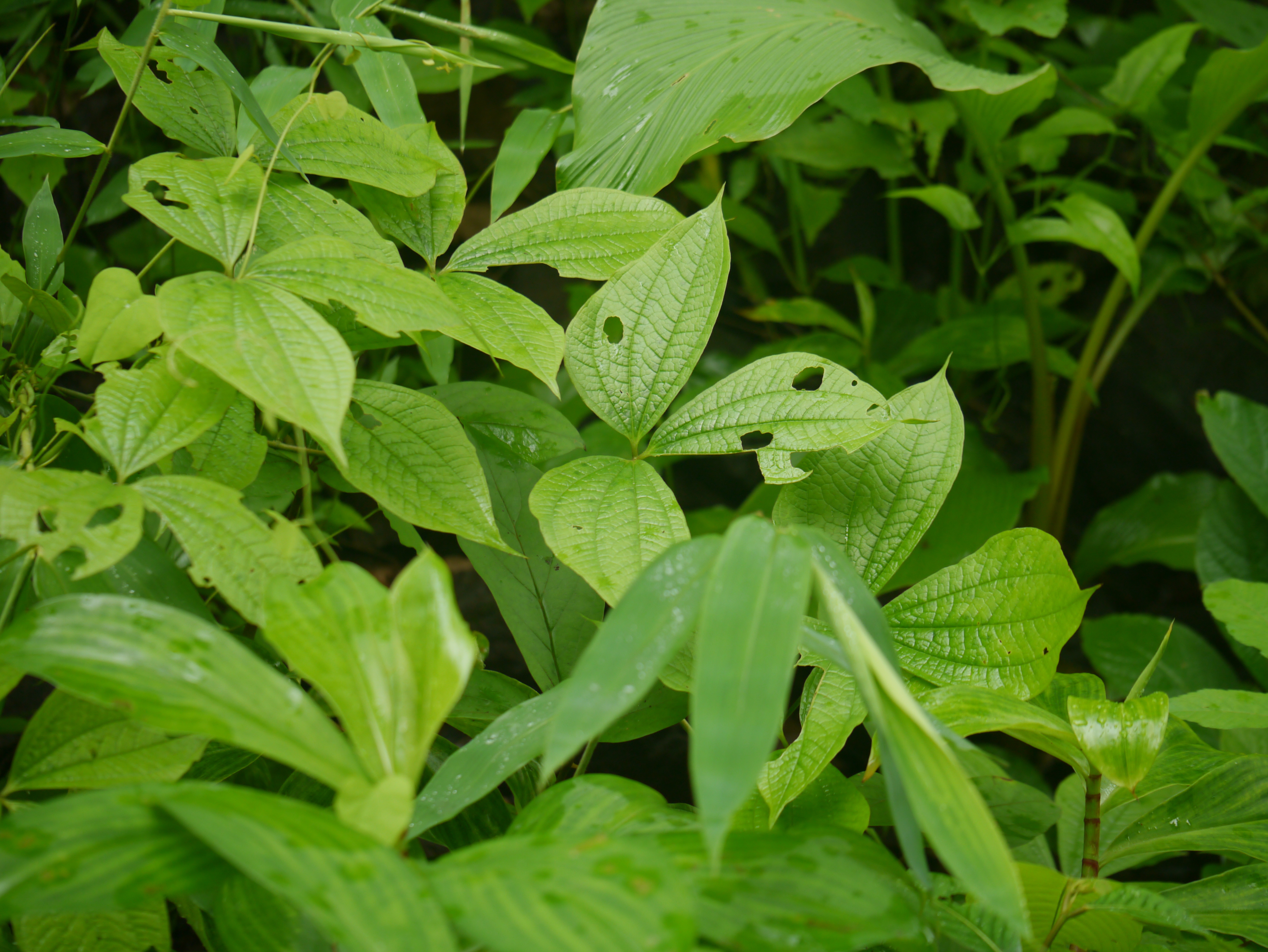 Dioscoreaceae (yam family) » Dioscorea hispida Dennst. dy-oh-SKOR-ee-uh -- named for Pedanios Dioscorides, Greek pharmacologist ... Dave's Botanary HISS-pih-duh -- with bristly hairs ... Dave's Botanary commonly known as: Asiatic bitter yam, intoxicating yam, tiger root yam • Gujarati: ભોંયકંદ bhoinkand • Hindi: करु कंद karu kand • Konkani: करोडी karodi • Malayalam: ബോളൻകണ്ടി bolankanti, പൊടവക്കിഴങ്ങ് potavakkizhangngu, പൊടിക്കിഴങ്ങ് potikkizhangngu, വെന്നി venni, വെന്നിക്കിഴങ്ങ് vennikkizhangngu • Marathi: भुलकंद bhulkand, करोडी karodi, वासकंद vaskand • Sanskrit: हस्त्यालुक hastyaluka • Tamil: ஆள்வள்ளி al-valli • Telugu: కొల్లి kolli Native to: s China, Bhutan, peninsular India, s-e Asia References: NPGS / GRIN • ENVIS - FRLHT • Additions to Flowers of Sahyadri by Shrikant Ingalhalikar